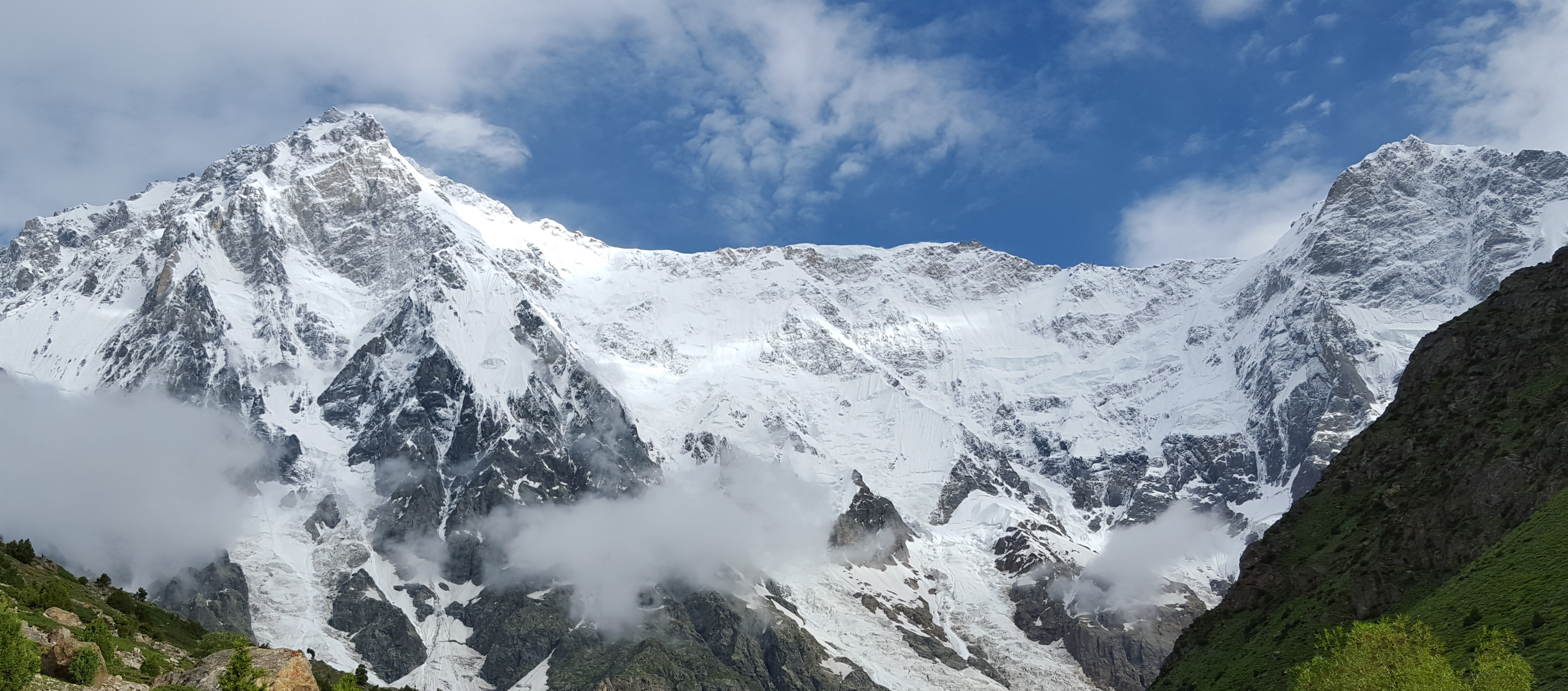 Nanga Parbat Rupal Valley Face - Pakistan